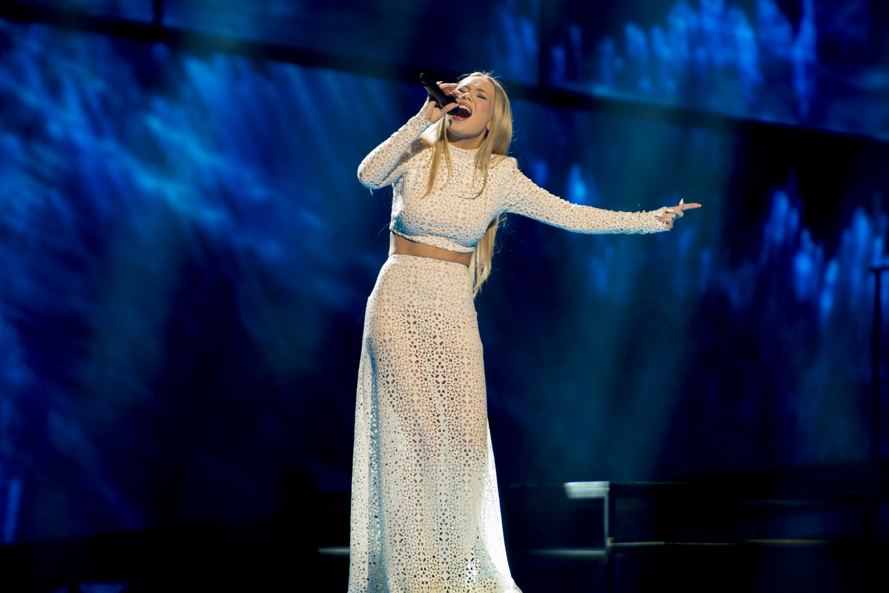 Agnete representing Norway with the song "Icebreaker" during a rehearsal before the second semi final of the Eurovision Song Contest 2016 in Stockholm. (Help translate this text)